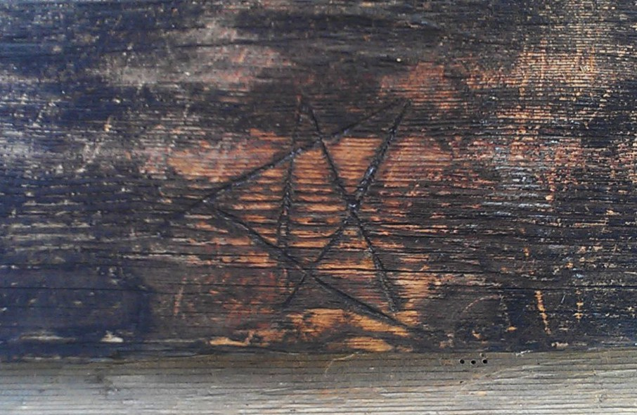 An apotropaic marking of a pentagram on a farmhouse building at the Niemalä tenant farm, now located at Seurasaari open air museum.